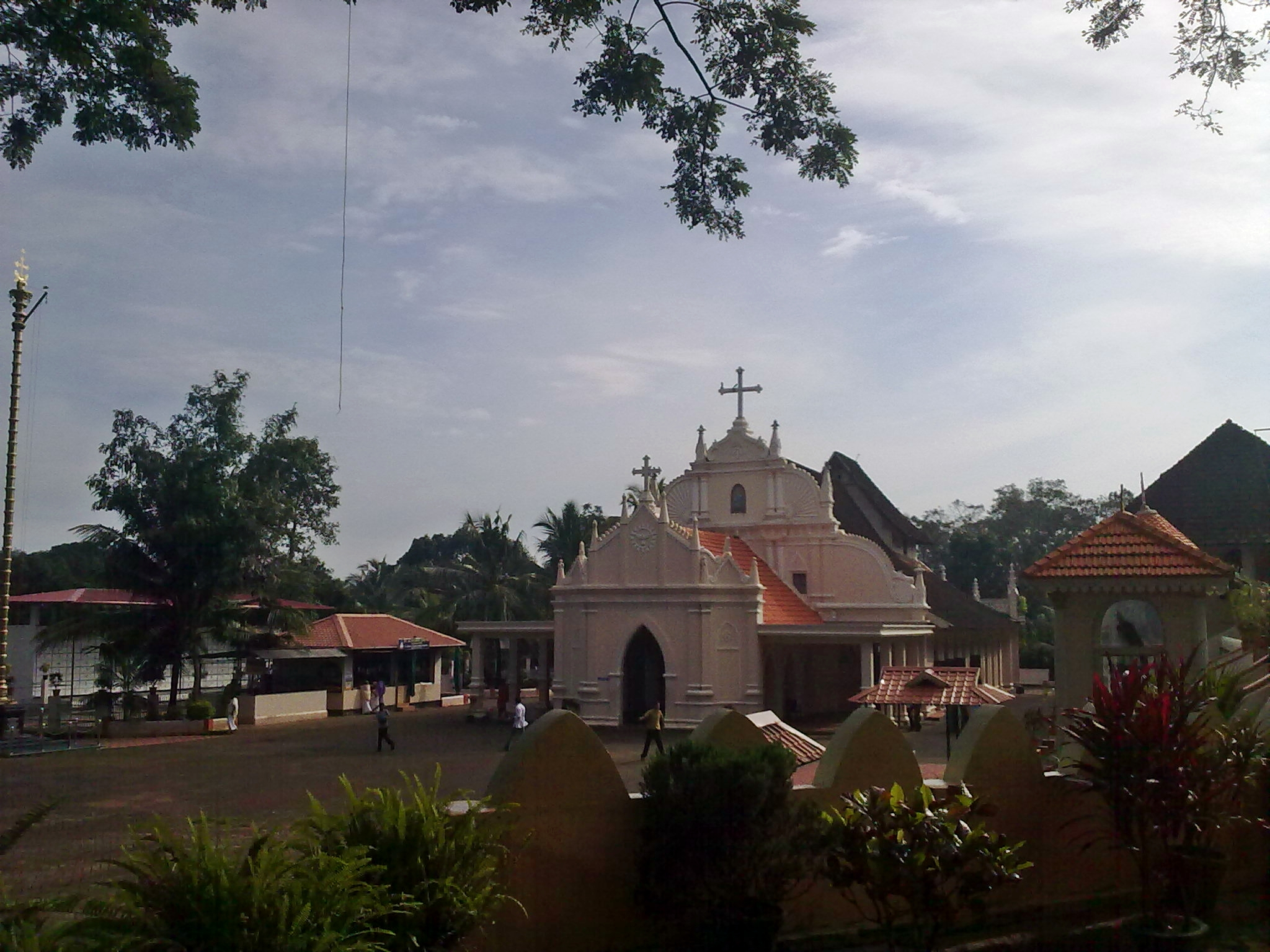 St. Mary's Church Kudamaloor is one of the ancient churches of the Syro-Malabar Rite. It is a Marian pilgrim center. It is situated 7 km north of Kottayam town.The old church was built by King Chempakasserry on AD 1125.